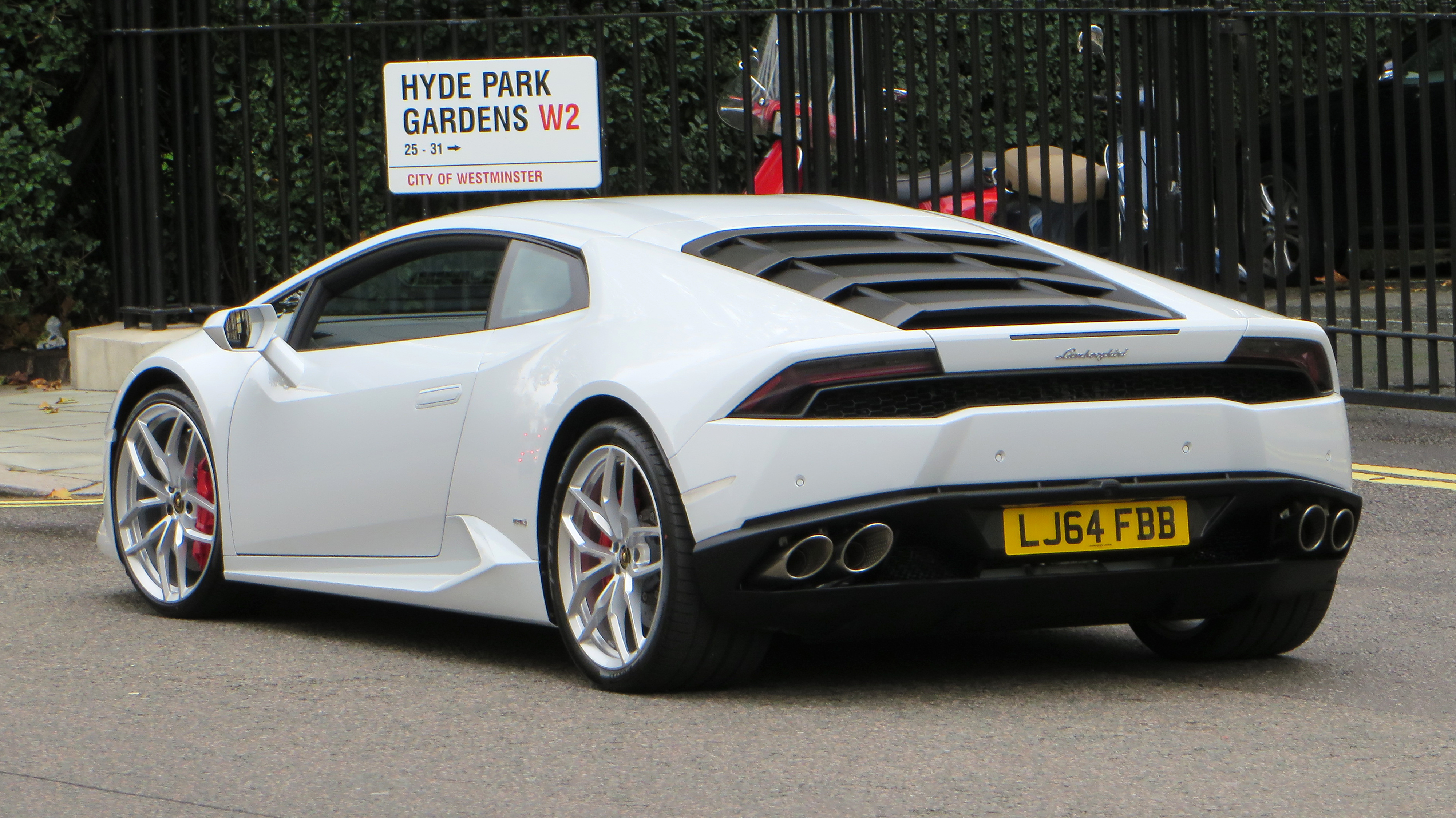 2014 Lamborghini Huracán LP 610-4 coupe The Huracán maintains the 5.2 L naturally aspirated Audi/Lamborghini V10 engine from the Gallardo, tuned for 610 PS (449 kW; 602 bhp). To ensure its balance and performance, the car is mid-engined. The V10 has both direct fuel injection and multi-point fuel injection. It combines the benefits of both of these systems; it is the first time this combination is used in a V10. To increase its efficiency the Huracán's engine also includes a start-stop system. Performance: The Huracán's top speed is over 325 km/h (202 mph). It can accelerate from 0 to 100 km/h (62 mph) in 3.2 seconds and from 0 to 200 km/h (124 mph) in 9.9 seconds. With a dry weight of 1,422 kg (3,135 lb), the Huracán has a power-to-weight ratio of 2.36 kg (5.20 lb) per horsepower. The Huracán has electronically controlled all-wheel drive, which aims to increase the traction on various surfaces and the overall performance of the car. The car has a 7-speed dual clutch transmission, Lamborghini's new 'Doppia Frizione' (Dual Clutch) gearbox. The transmission performs differently depending on the mode the driver has selected. The Huracán is only available with automatic transmission; manual will not be offered. The Huracán also has a magnetically controlled suspension system. It utilises magnetorheological dampers to very quickly change how the suspension acts, ensuring performance as well as usability. The Huracan has various components in common with the next generation Audi R8. This is due to both of the cars' utilization of Volkswagen Group sportscar technology.